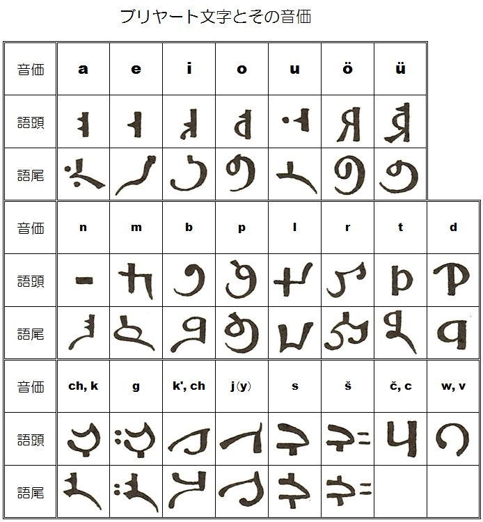 The table of Buryat alphabet (Vagindra script) (title & column name : Japanese).